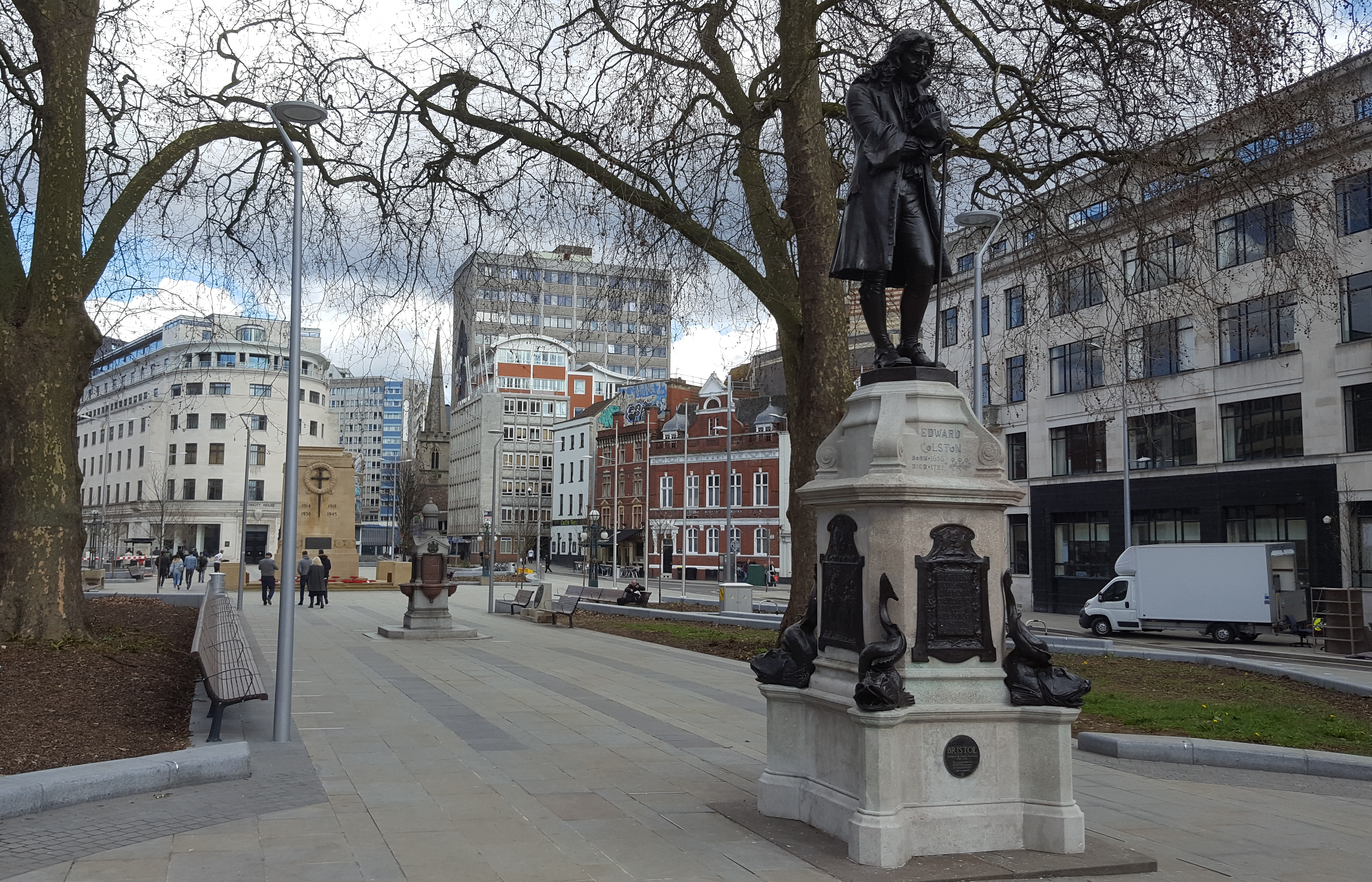 Northern end of The Centre, Bristol, showing Cenotaph and statue of slave trader and local philanthropist Edward Colston following MetroBus-funded public realm improvements, March 2018.